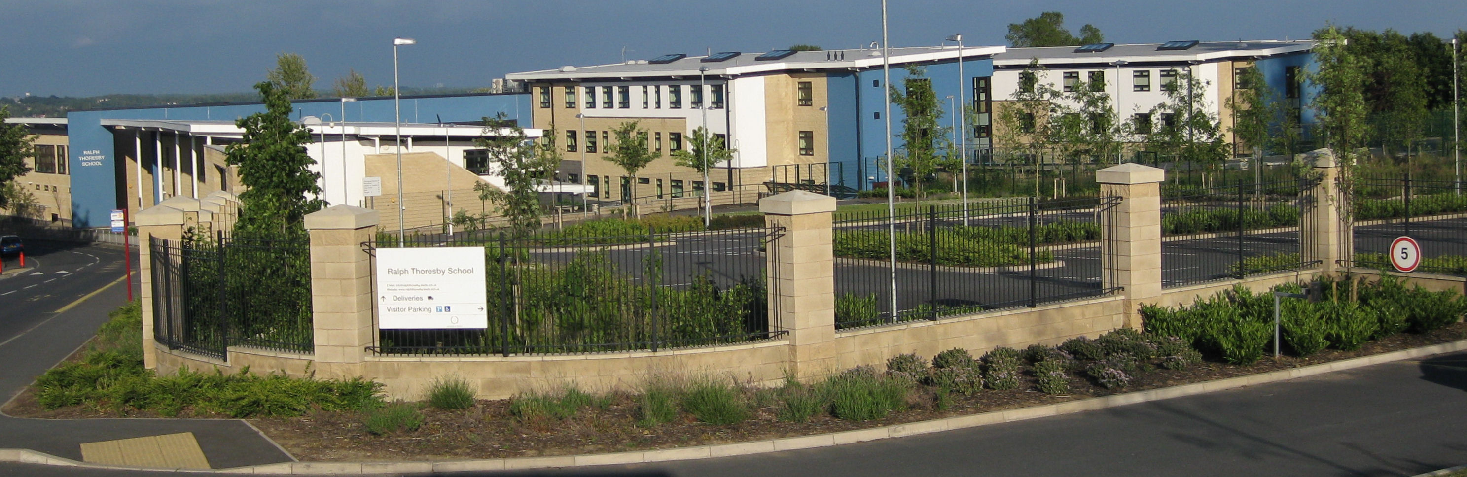 Ralph Thoresby School, Holtdale Approach, Leeds LS16 7NQ